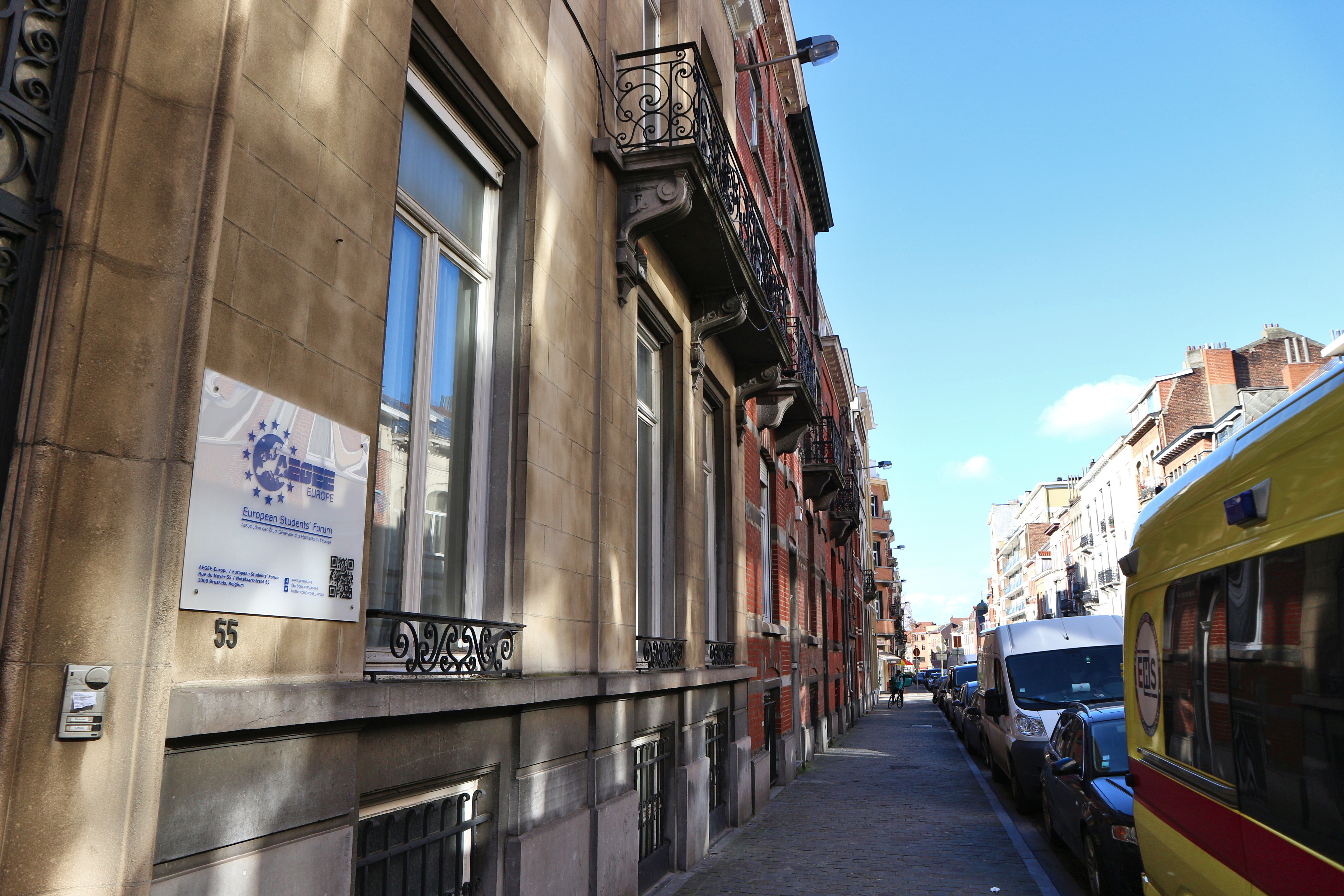 AEGEE-Europe headquartes in Bruxells